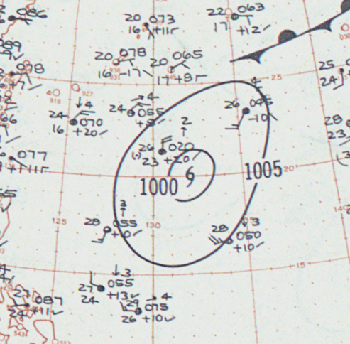 Surface weather analysis of Tropical Storm Lucille near its peak intensity on May 30, 1960.